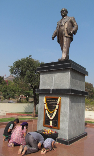 In India Dr Babasaheb Ambedkar is regarded as Bodhisattva. The devotee bows or prostrates three times to the Triple Gem. While continuing to kneel with palms-together hands held before the heart, the devotee then intones various chants typically starting with paying homage to the Dr Babasaheb Ambedkar.